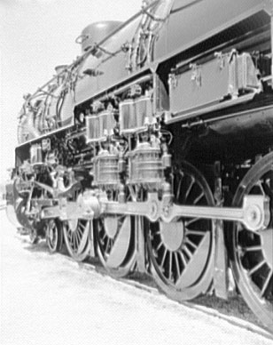 Detail picture of a Pennsylvania Railroad M1a steam locomotive at the New York World's Fair, 15 July 1939.